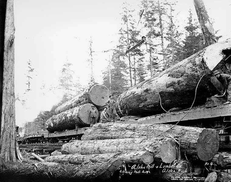 Caption on image: Aloha Mill & Lumber Co., Aloha, Wash. C. Kinsey Photo, Seattle. No. 4 PH Coll 516.17Aloha was once home to Aloha Mill and Shake Company. It is located two miles east of the Pacific Ocean on Beaver Creek in west central Grays Harbor County. It was founded by R. D. Emerson and W. H. Dole in 1905. The name, a Hawaiian greeting, was chosen by members of the Dole family, who were landowners and business people in Hawaii. In 1920, Aloha Mill & Lumber Co. successfully bid on a unit of timber near Moclips, six miles away from its mill. For the next two years the company toiled at constructing a railroad to the sale site. Heavy rains during the winter months, 25 to 30 inches a month, delayed the start of logging until the summer of 1922. Subjects (LCTGM): Loggers; Logs; Railroad cars--Washington (State))--; Lumber industry--Washington (State); Aloha Mill and Lumber Company--People--Washington (State); Aloha Mill and Lumber Company--Equipment & supplies--Washington (State); Grays Harbor County (Wash.)